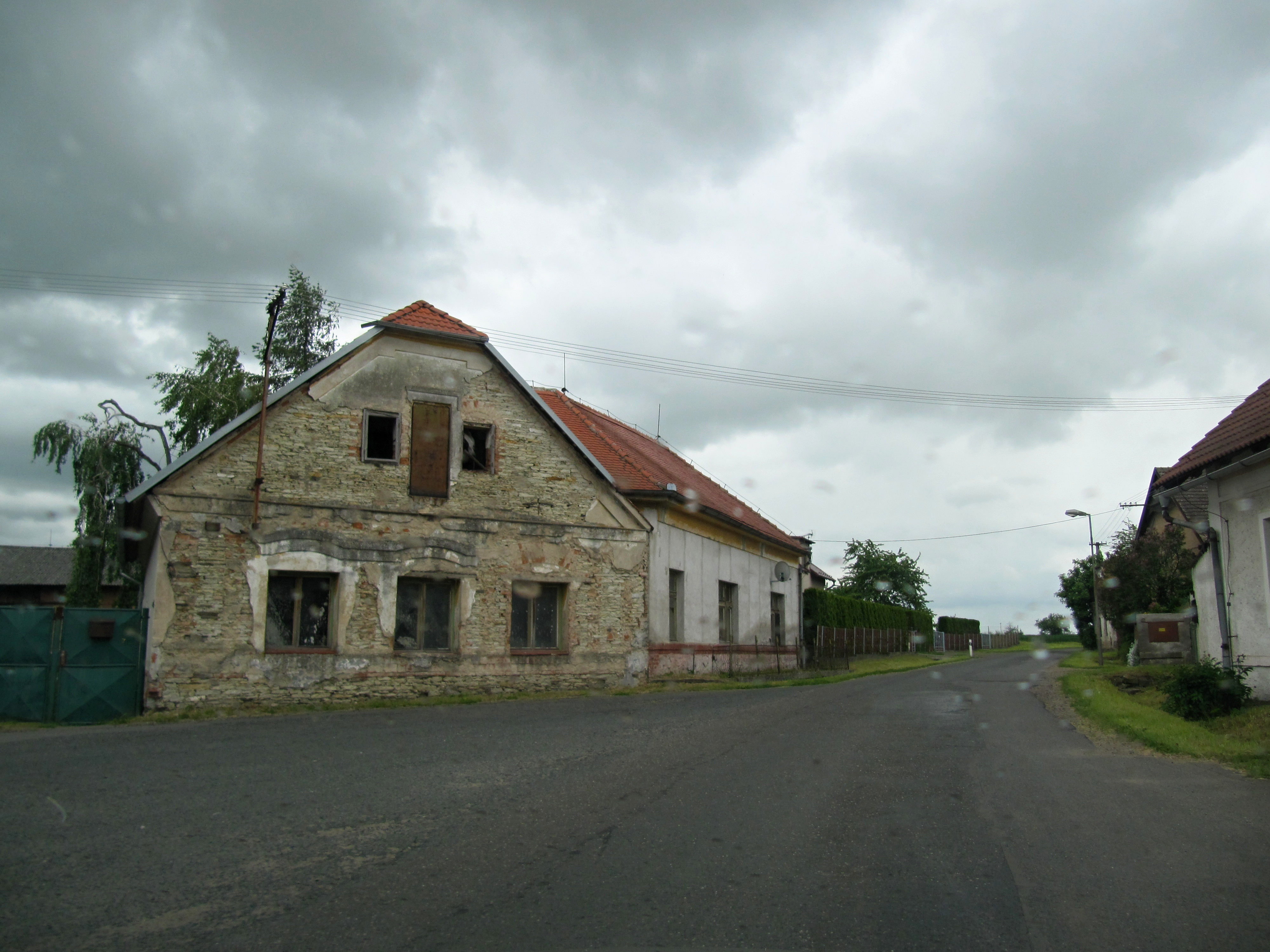 Vlačice, Kutná Hora District, Czech Republic. House No. 7 at the crossroads in the western part of the village.